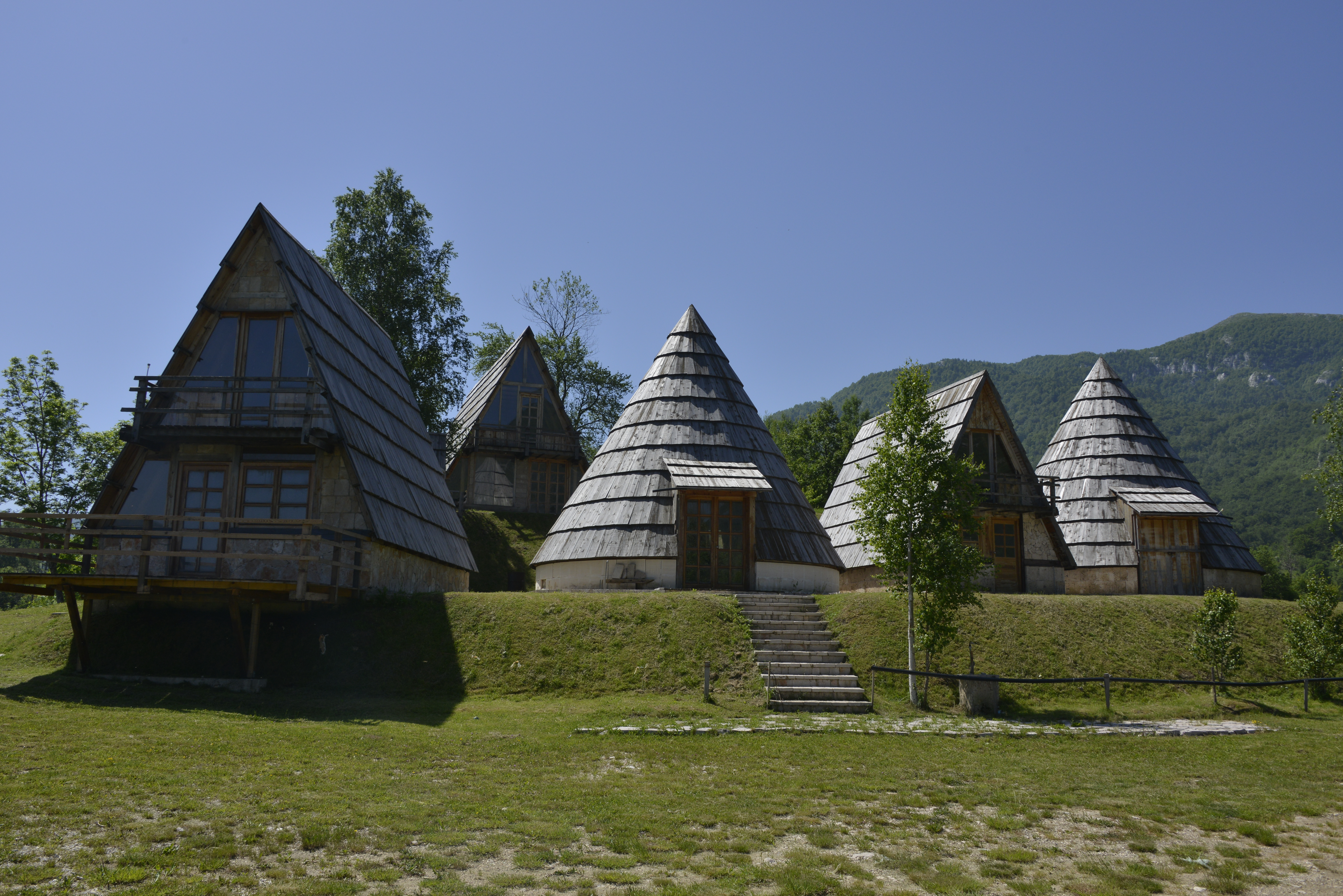 Ethno village near Šavnik, Montenegro